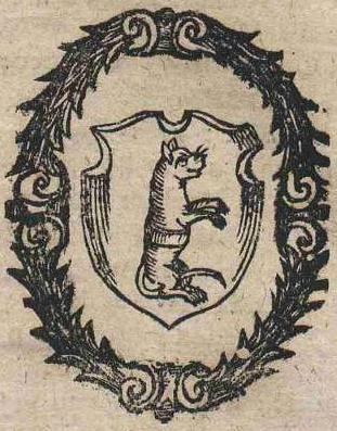 Coat of arms Kot Morski from Orbis Poloni